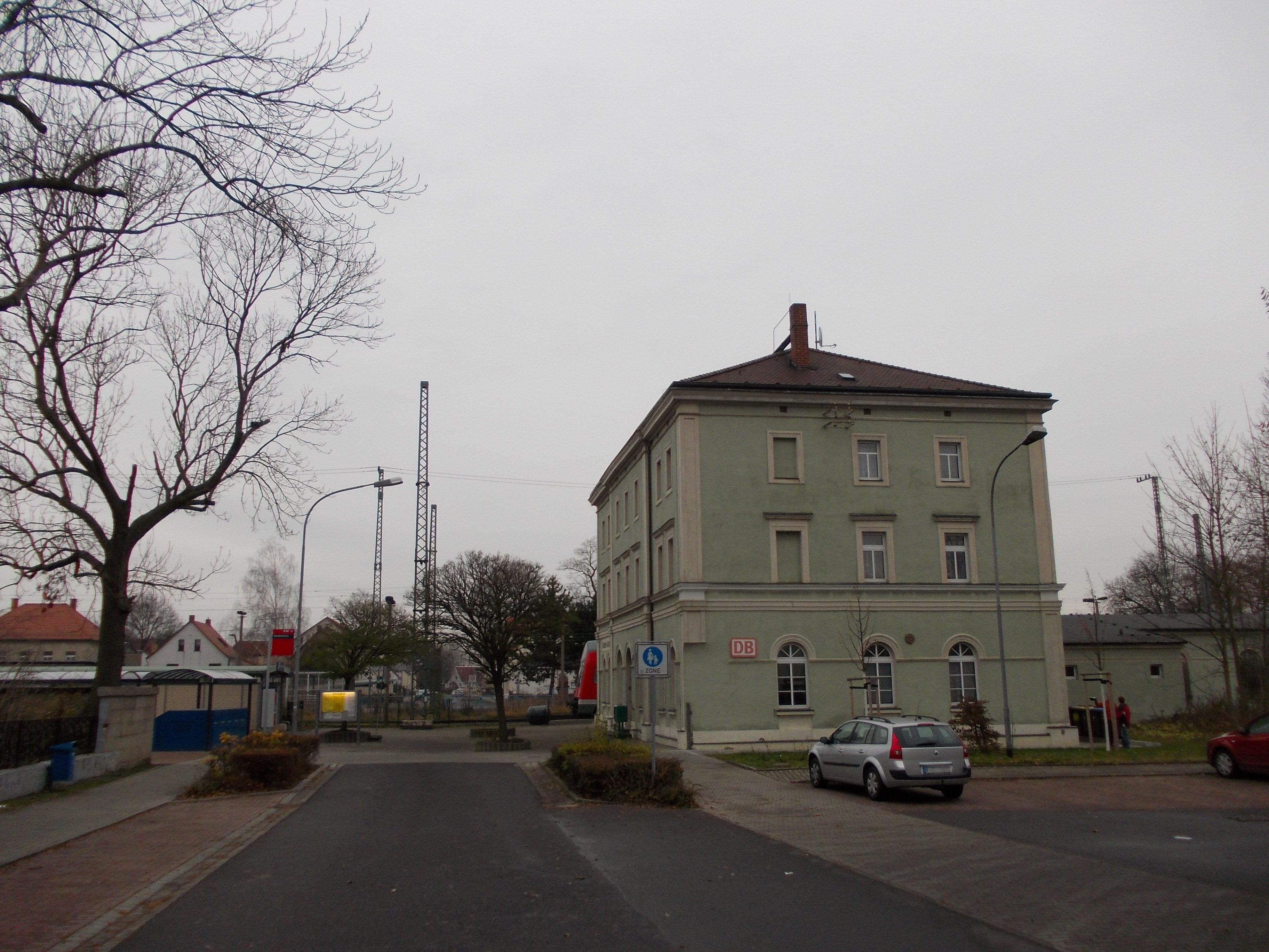 Neukieritzsch train station (Leipzig district, Saxony)